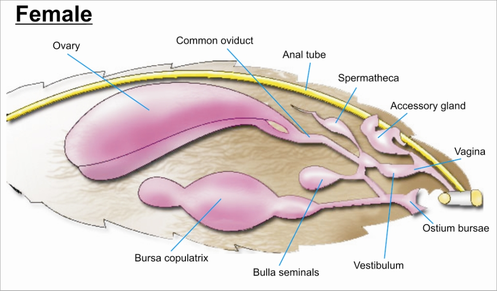 Diagram of female genitalia of Lepidoptera (based on a number of sources including Klots)